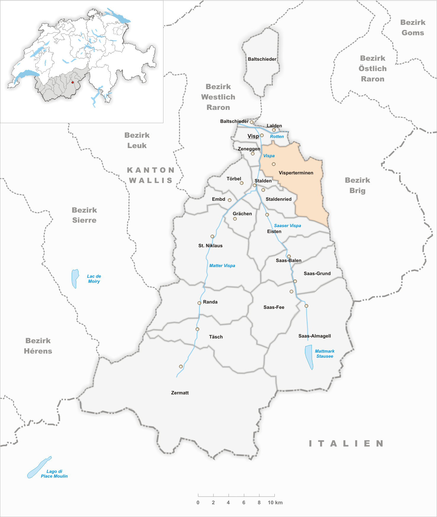 Municipality Visperterminen